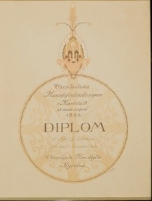 Carl Widlund, Exhibition diploma in 1922, Värmländska Hemslöjdsutställningen, Karlstad. Nordiska museet, identification no NM.0319794.